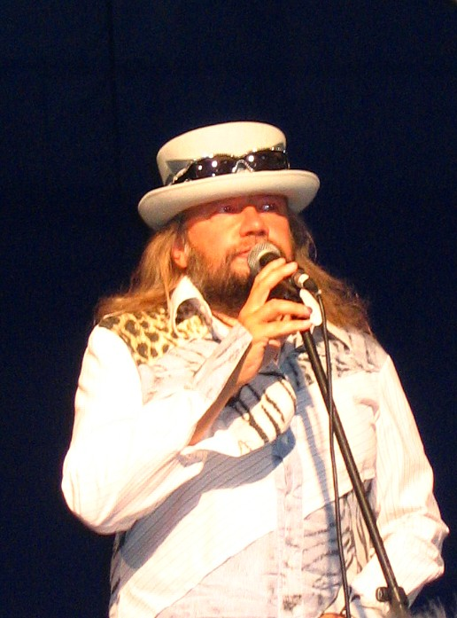 Mariusz Adamiak announcing John Scofield show, Warsaw Summer Jazz Days 2004